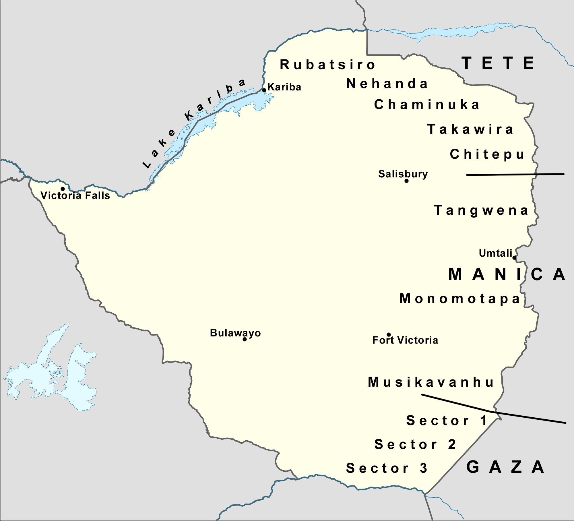 Provinces and sectors within Rhodesia, as defined by the Zimbabwe African National Liberation Army in the early 1970s.